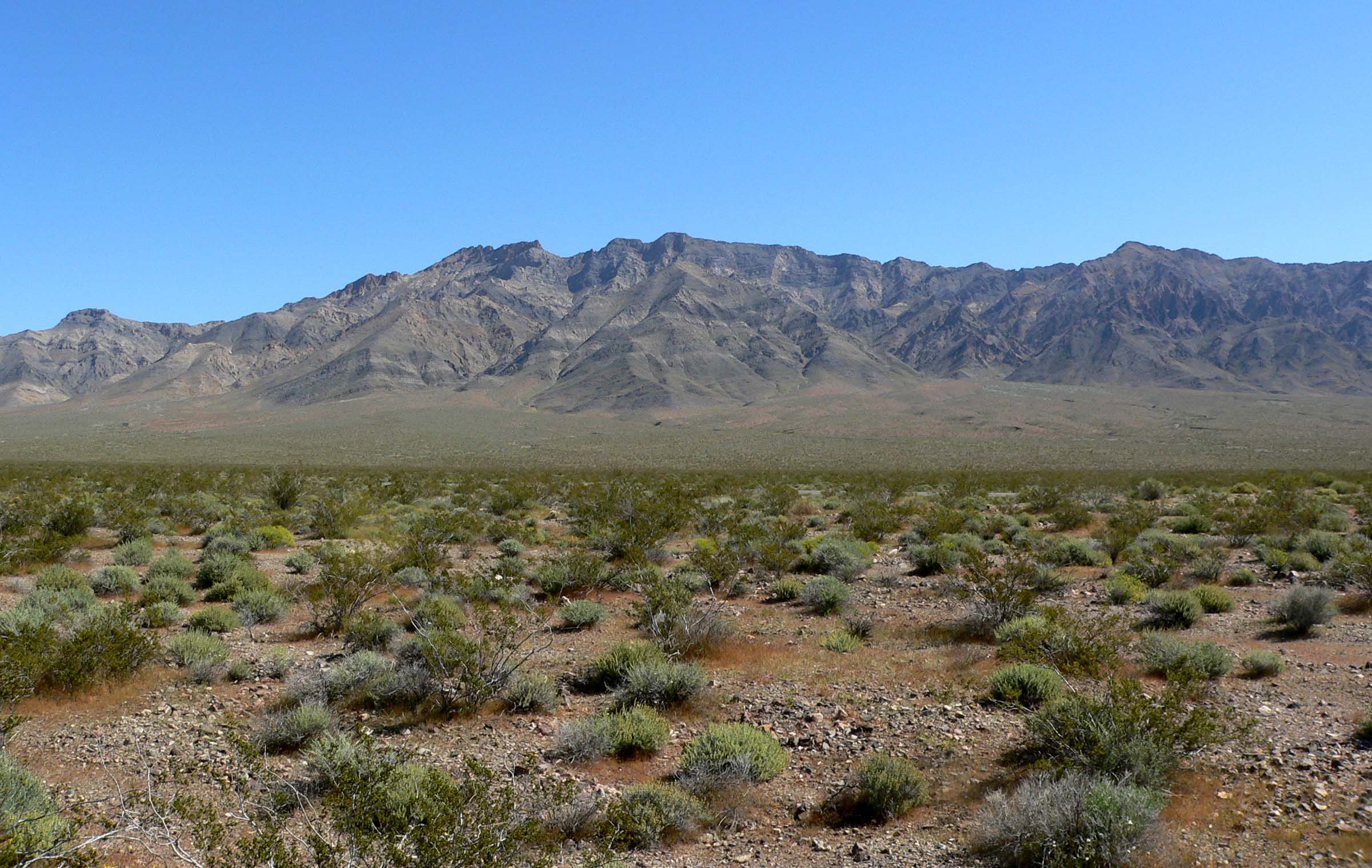 East side of Resting Spring Range seen from Chicago Valley, Mojave Desert, California